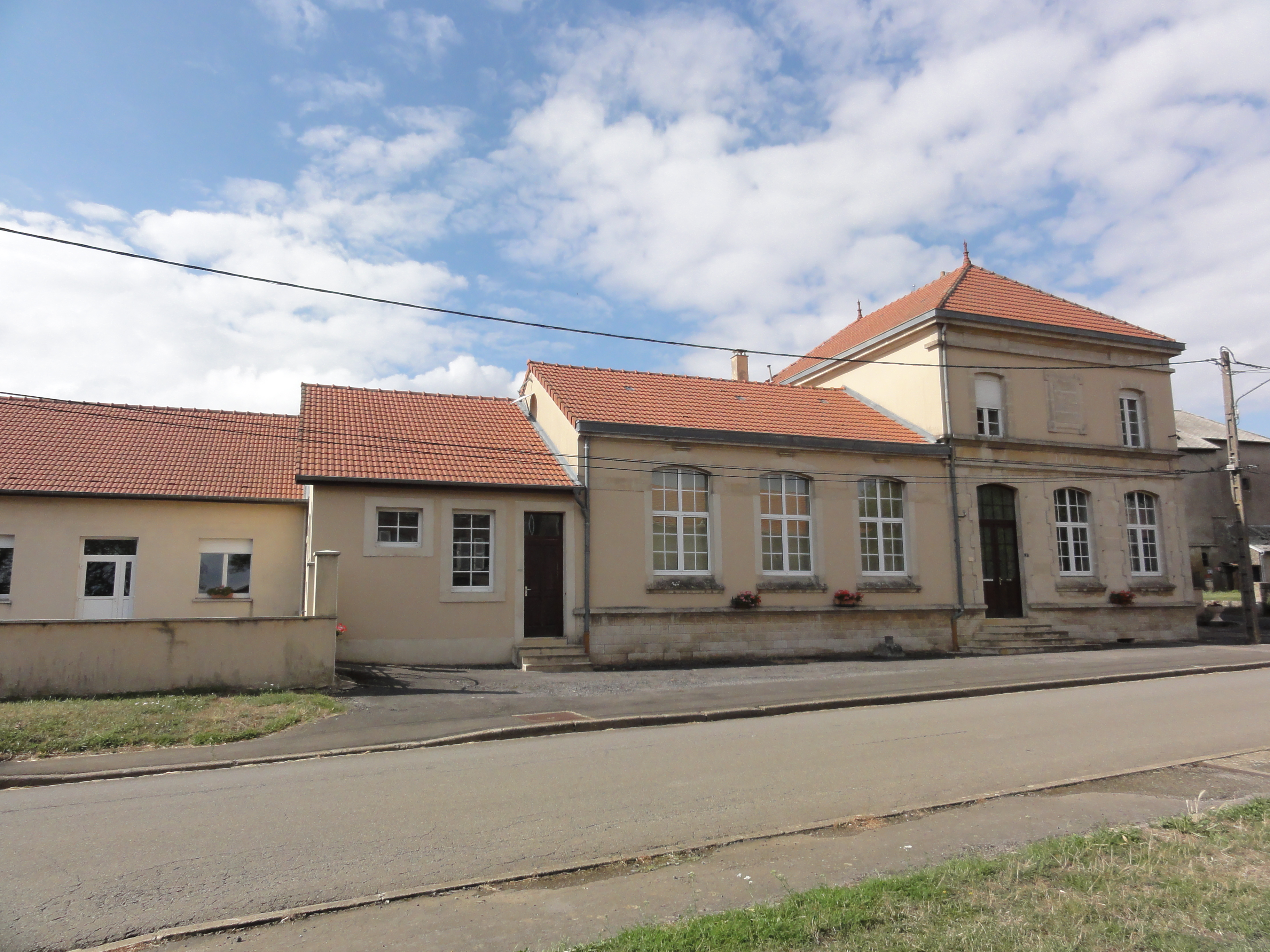 Bazailles (Meurthe-et-M.) école